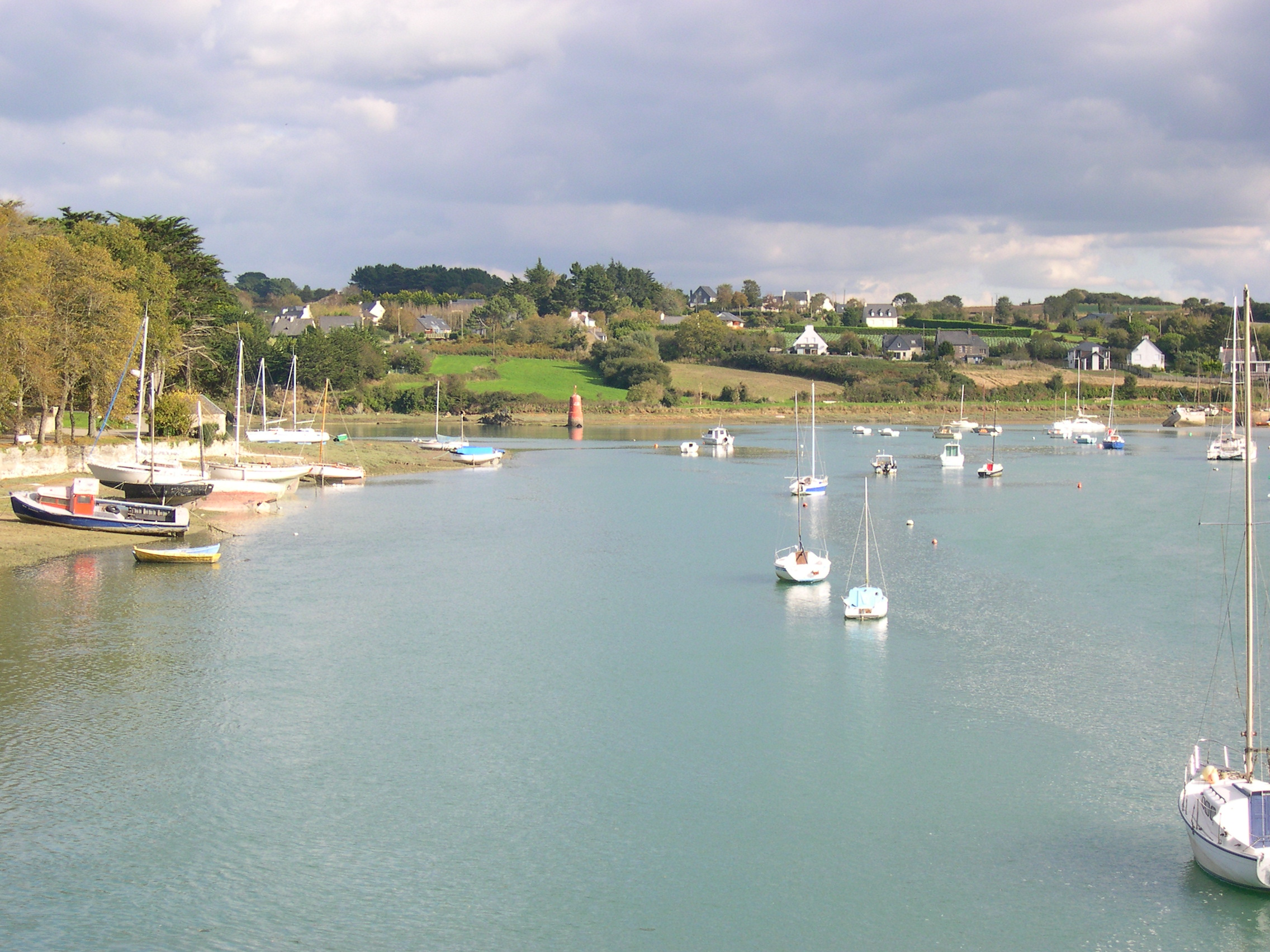 Outlet of the river